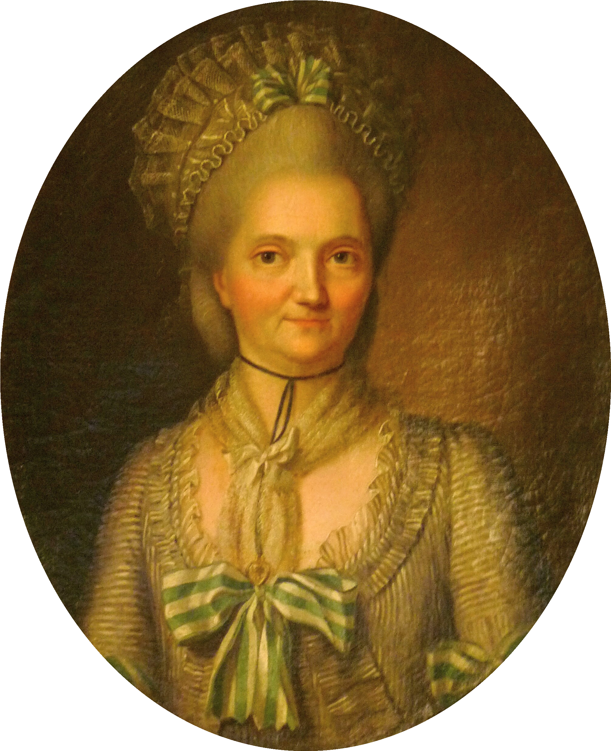 Portrait of Marie-Angélique de Mackau (1723-1801)